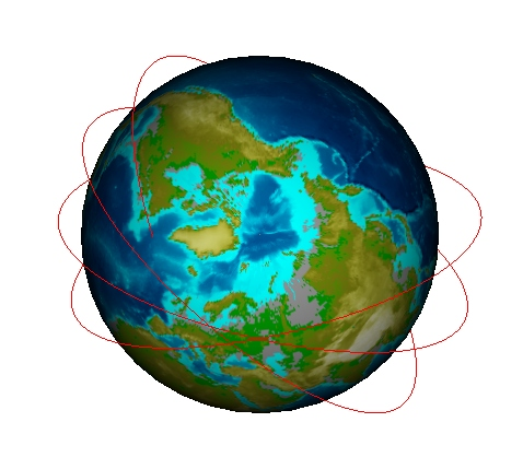 The orbit of the Freja satellite during 6 hours from 1994-03-21T00:00:00Z. Plotted using the Orbit Visualization Tool.